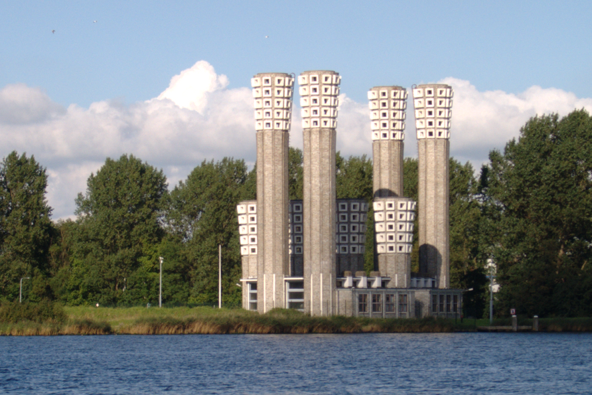 Ventilation shafts of the Velser tunnel (north bank), Velsen, the Netherlands, constructed in 1957. The short shafts are for air intake, the tall ones are exhaust. There are similar shafts on the south bank.